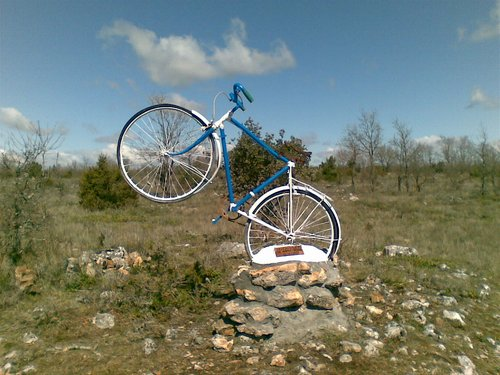 Lance Armstrong monument at Antigüedad, Palencia, Spain.